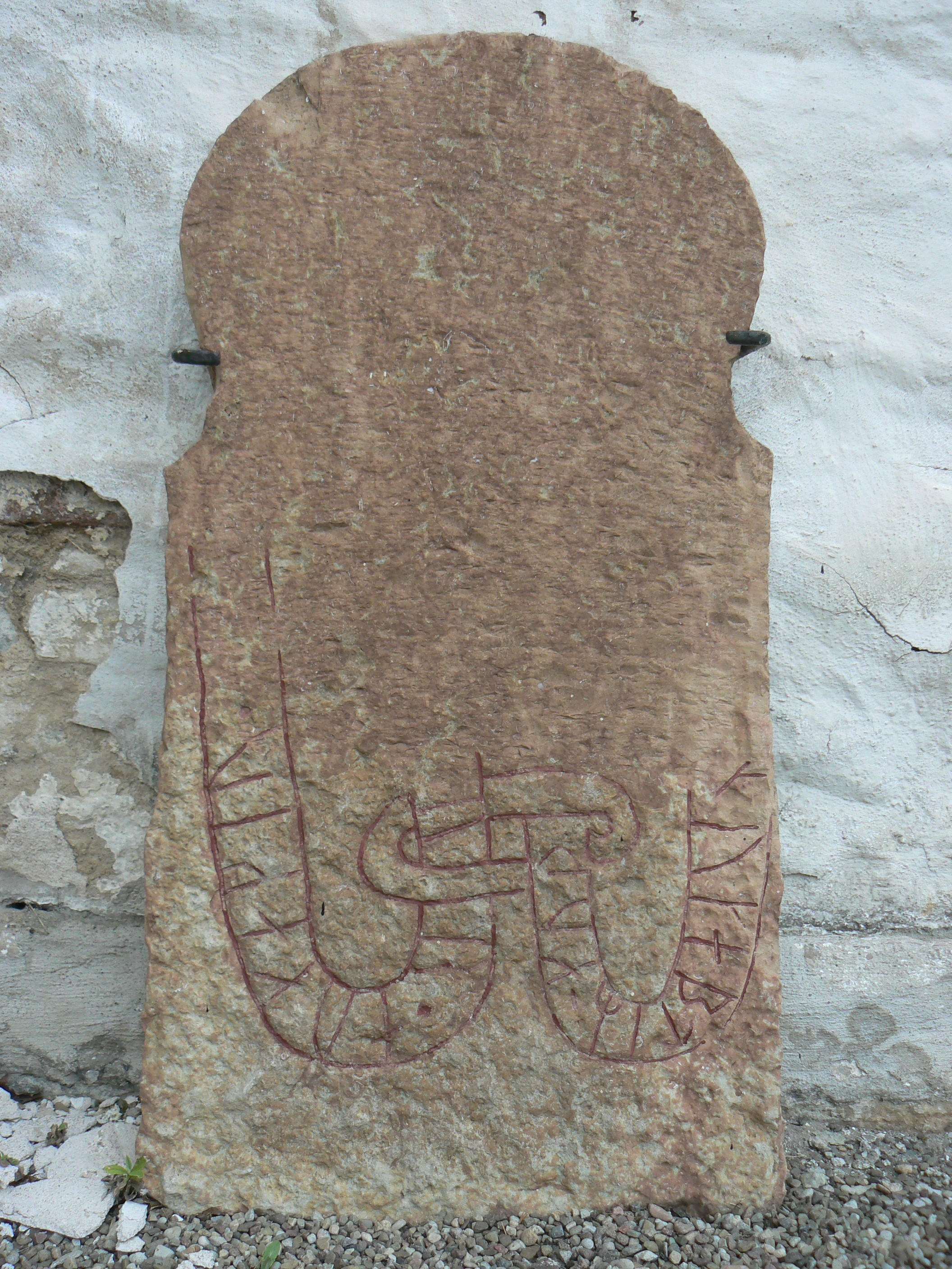 Ölands runinskrifter ATA4701/43 ("Runic inscriptions of Öland ATA4701/43"), runestone at Alböke church north of Borgholm in Öland, Sweden.